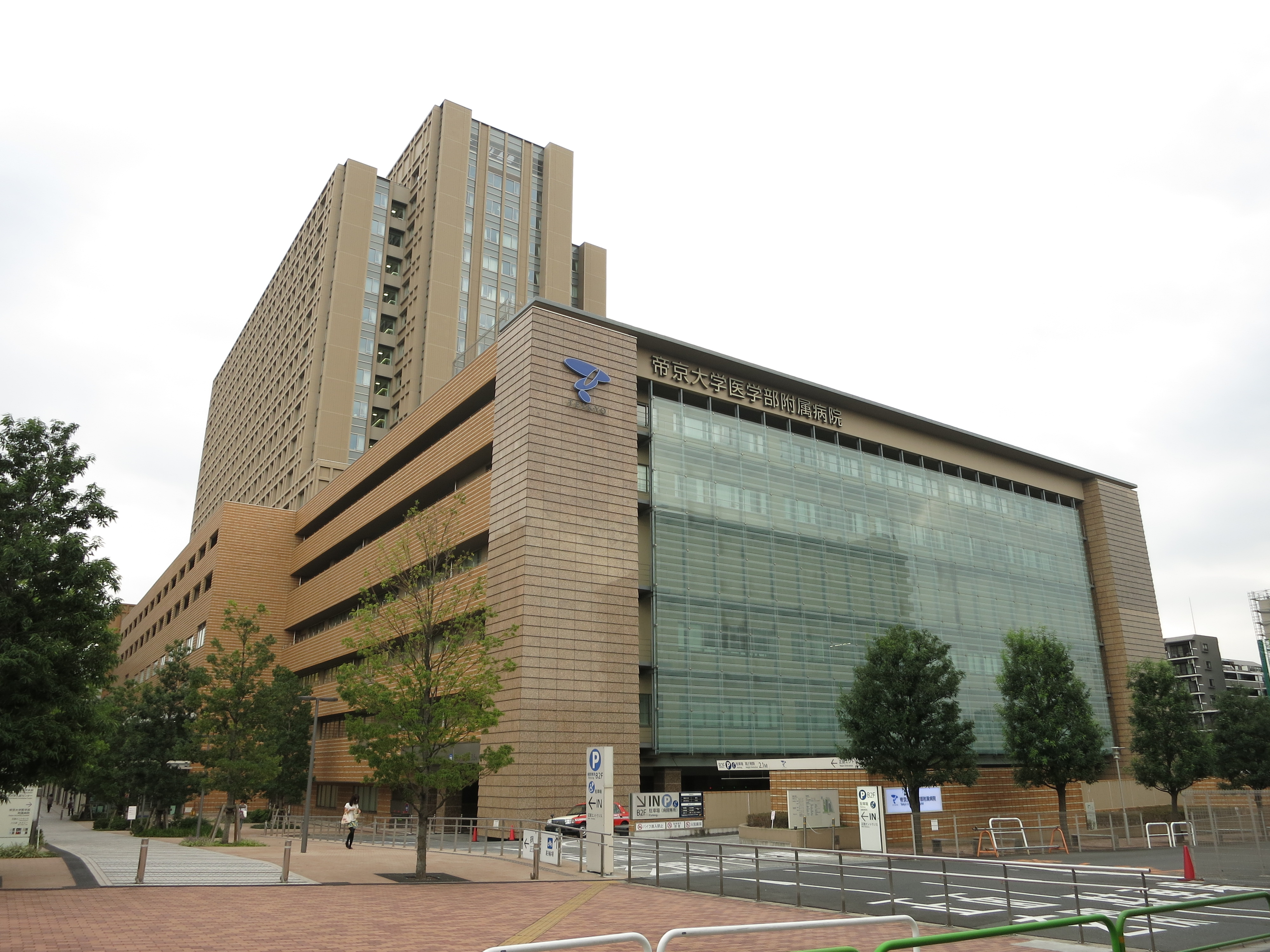 Teikyo University Hospita